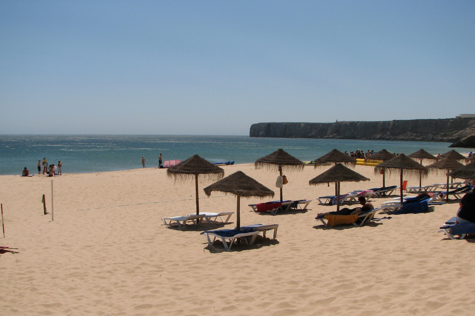 The beach at 'The end of the world' - Sagres - The Algarve, Portugal